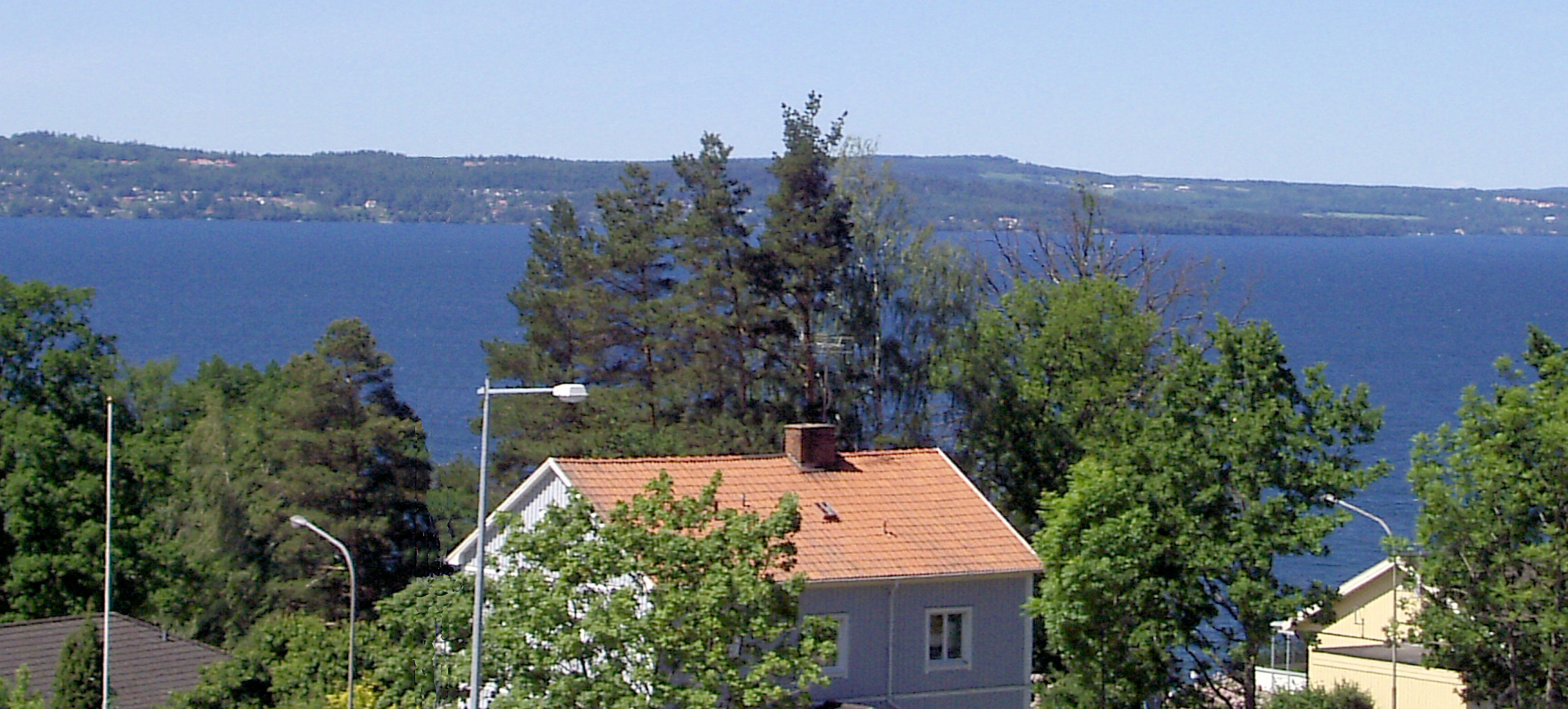 Vättern, southern area, view from Brunstorp